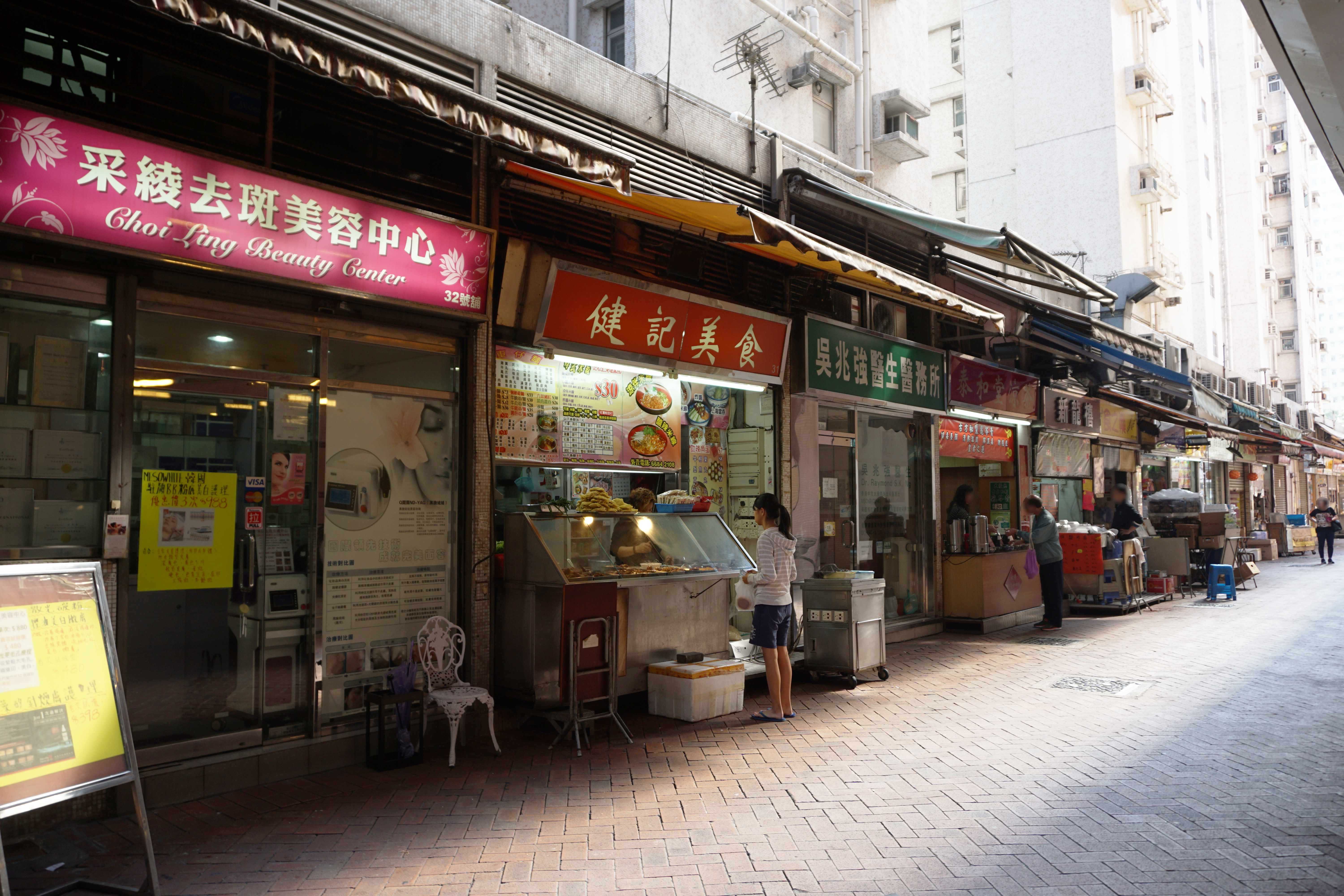 Lung Mun Oasis in Tuen Mun, Hong Kong.